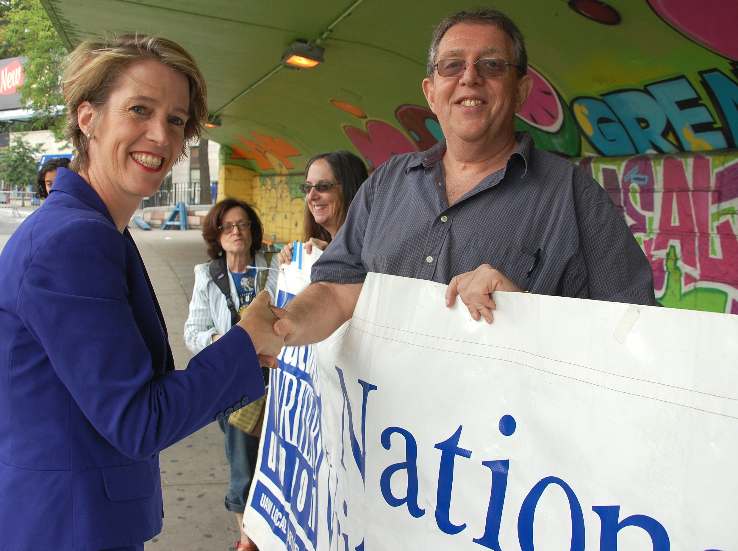 STATEN ISLAND, N.Y. -- Gubernatorial candidate Zephyr Rain Teachout (Democrat) shakes hands with National Writers Union (UAW Local 1981) president Larry Goldbetter at the "We Will Not Go Back" march and rally held on August 23, 2014.